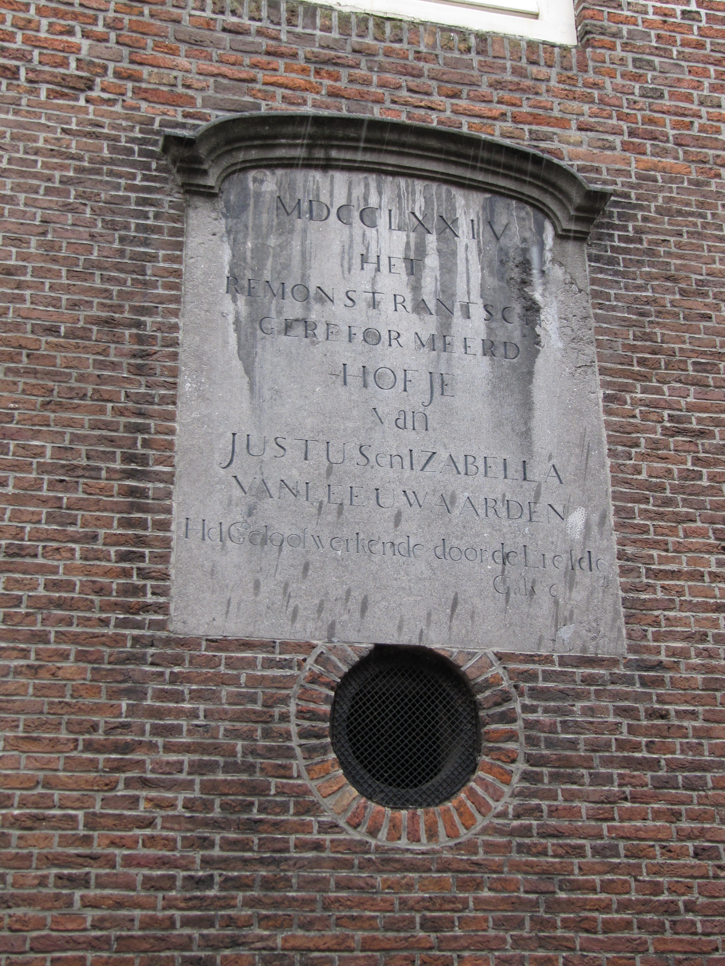 RM19803 Haarlem - Ursalastraat - Remonstrantshof.jpg